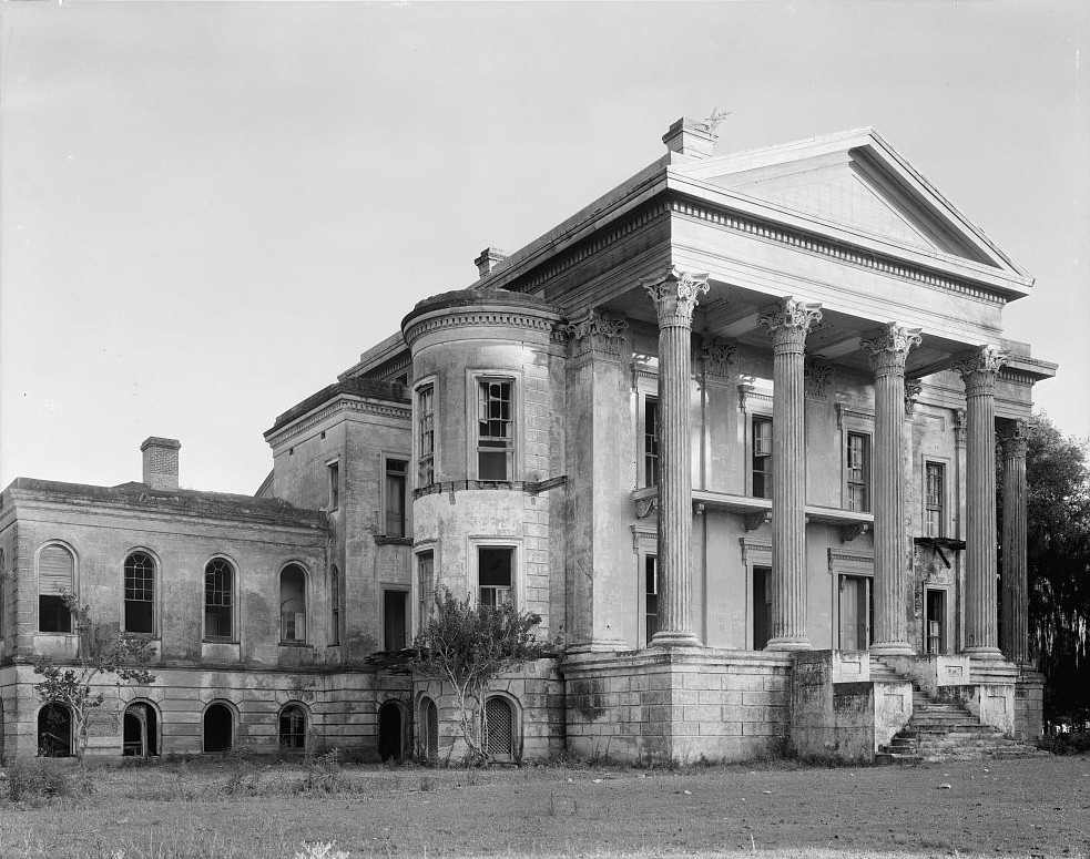 Belle Grove — front, White Castle vicinity, Iberville Parish, Louisiana. From the Library of Congress' Carnegie Survey of the Architecture of the South.